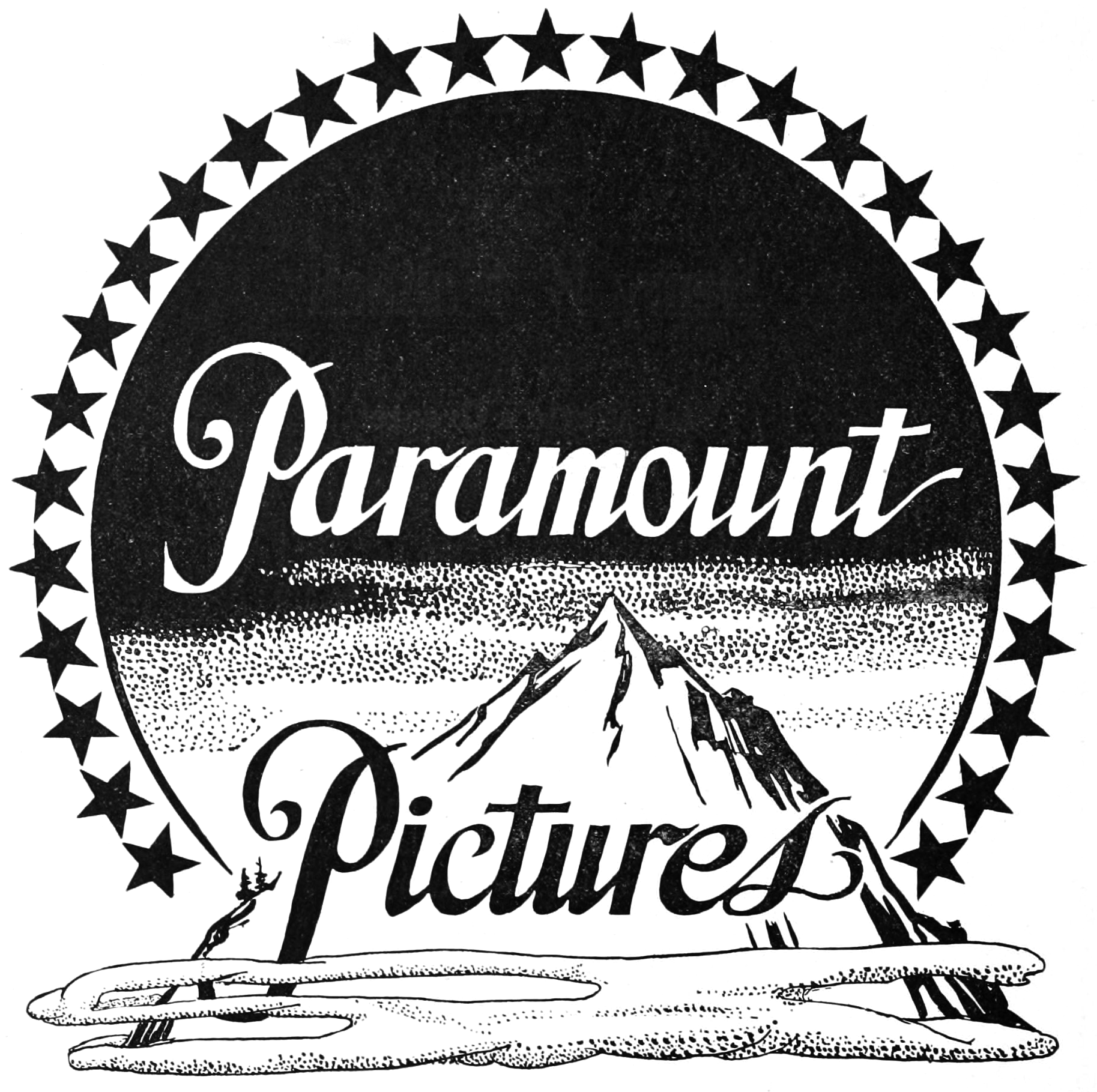 A large version of the Paramount Pictures logo as it appeared in a trade-magazine advertisement in 1915